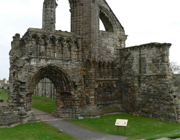 The west gable of St Andrews Cathedral in St Andrews (Scotland)